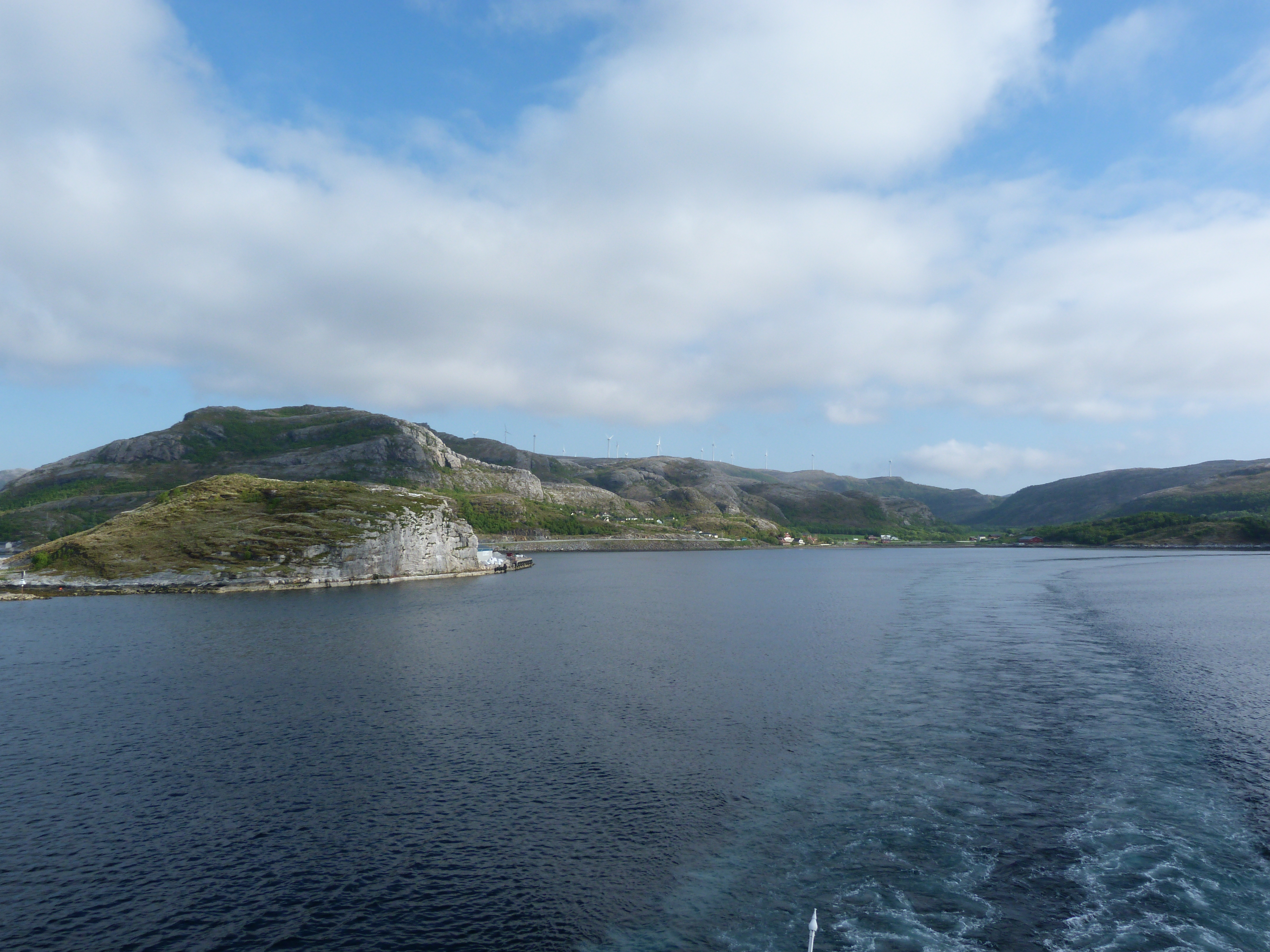 Bessaker, Norway as seen from passing ship